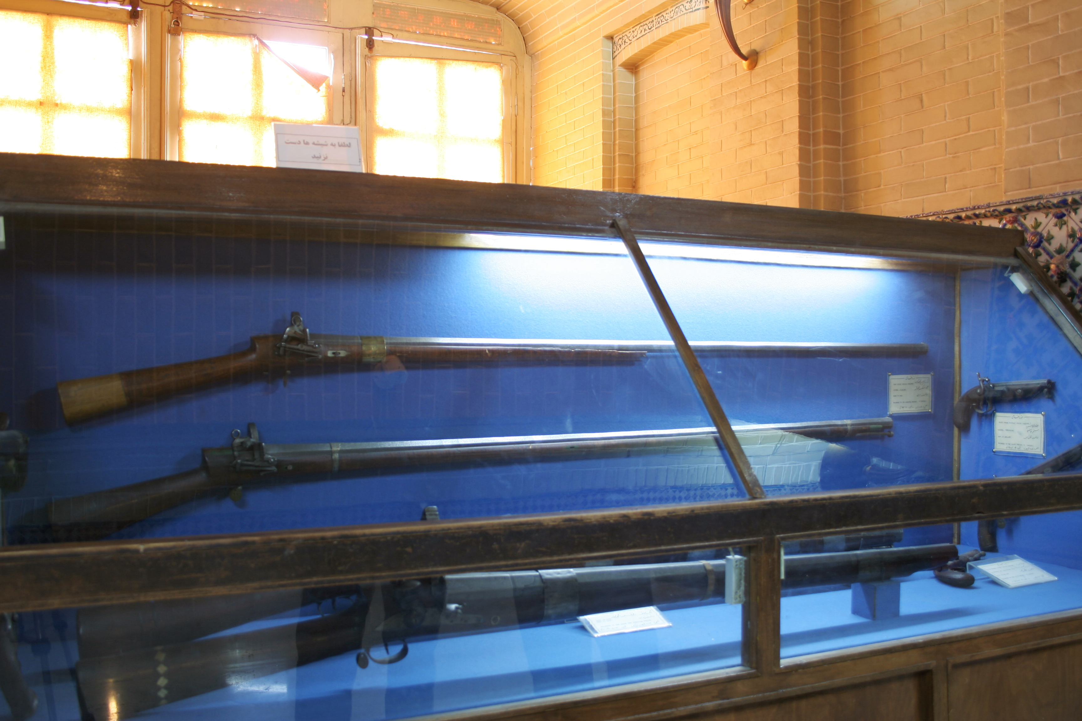 Some kinds of old Muzzle-loaders used by Military of Iran at past decades. Afif Abād Garden.